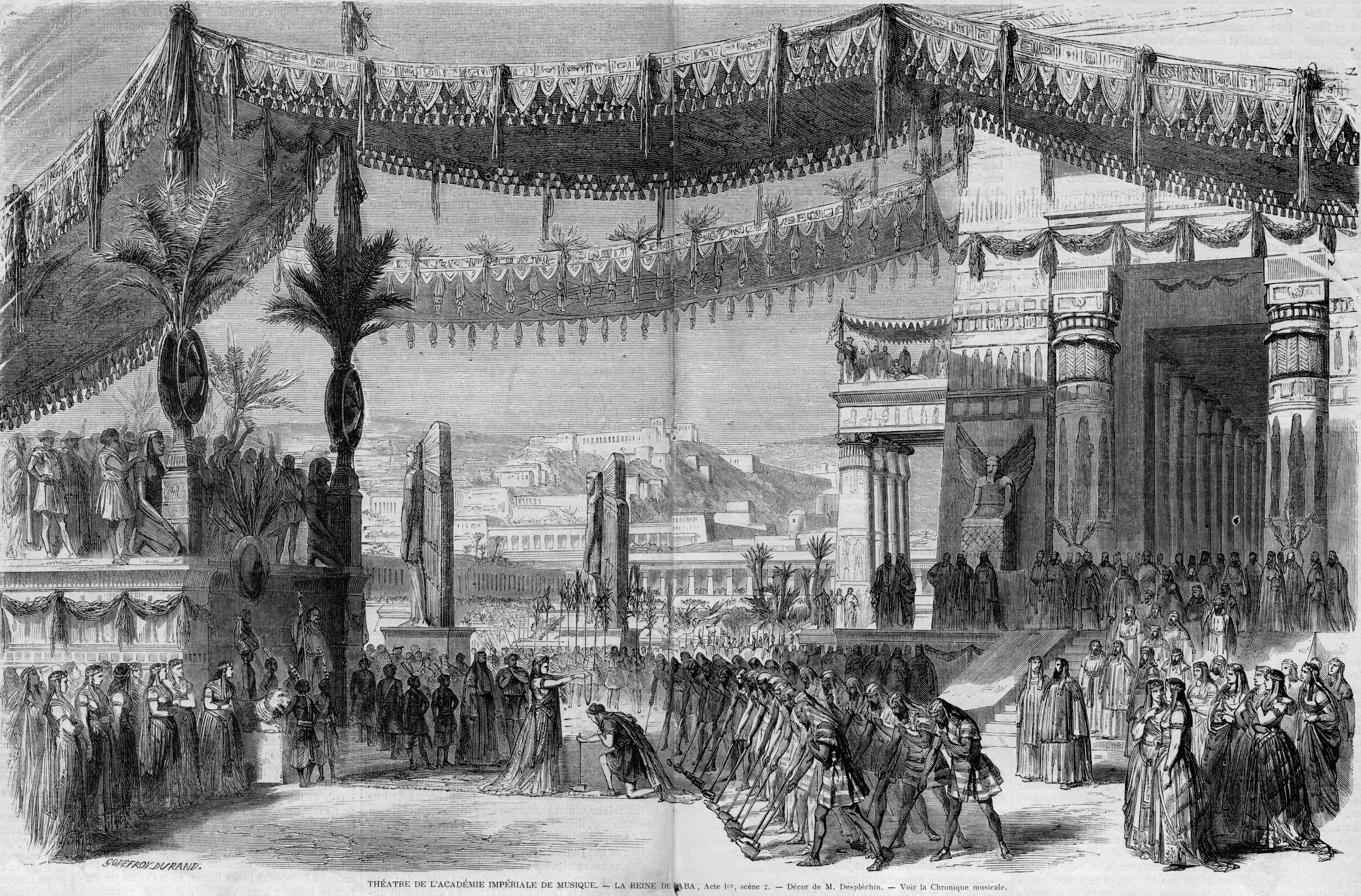 L'Illustration 1862 gravure: Théatre de l'Académie Impériale de Musique - La Reine de Saba par Gounod, première du 28 février 1862, Acte Ier, scène 2, décor de Despléchin.